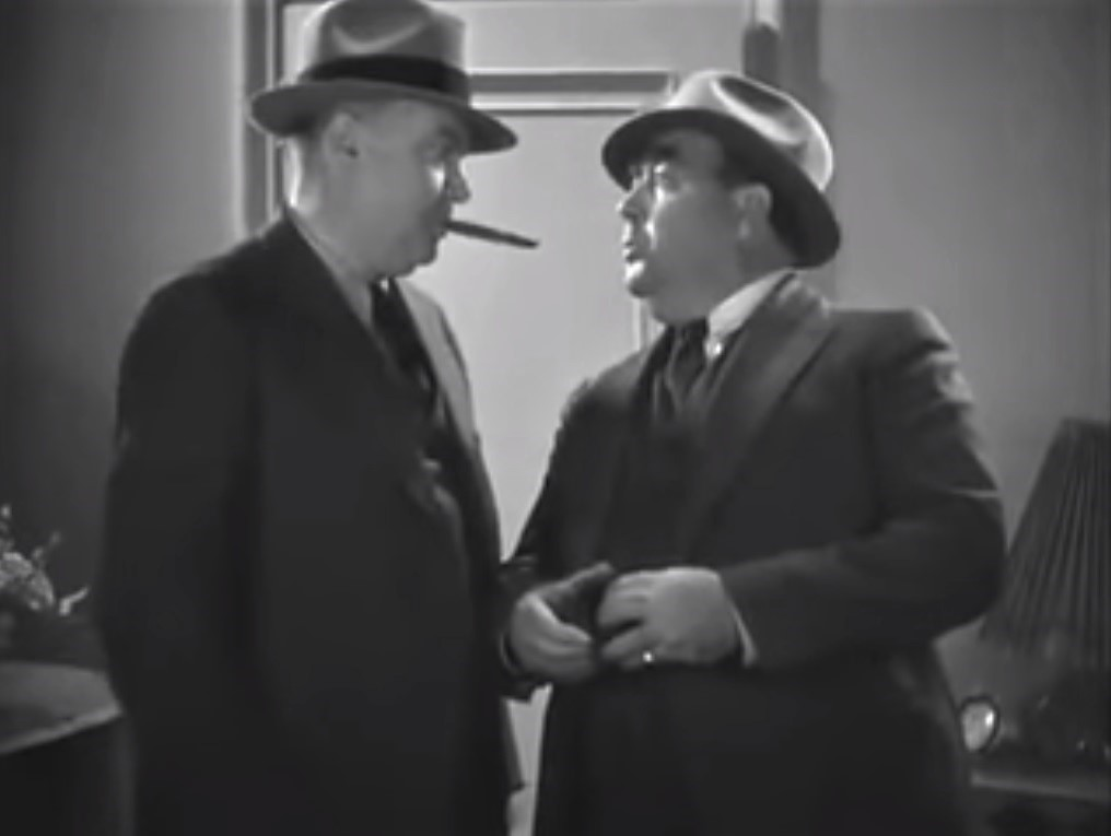 Charles C. Wilson (left) and Eugene Pallette in The Kennel Murder Case - cropped screenshot